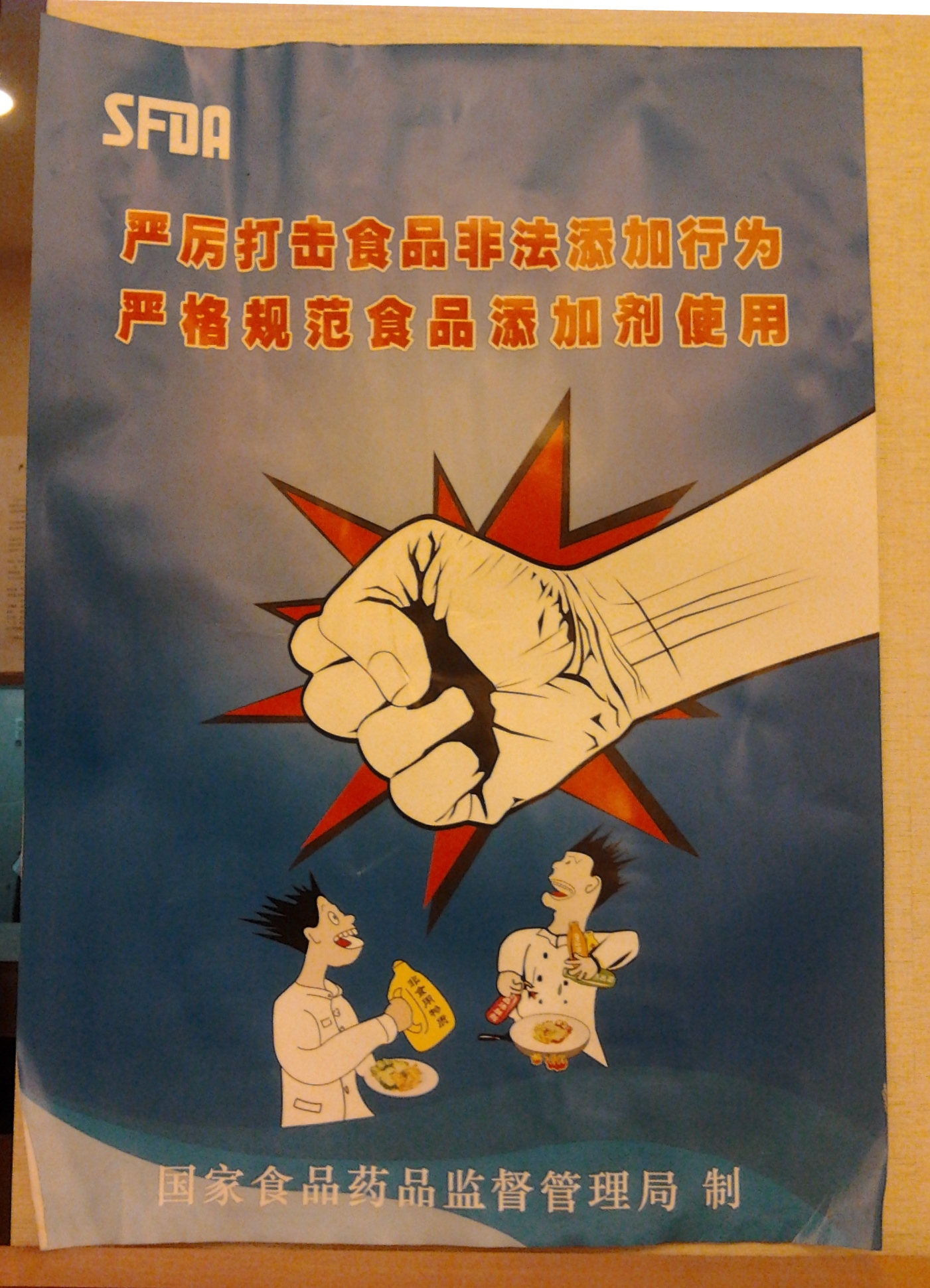 Chinese Food Safety Poster